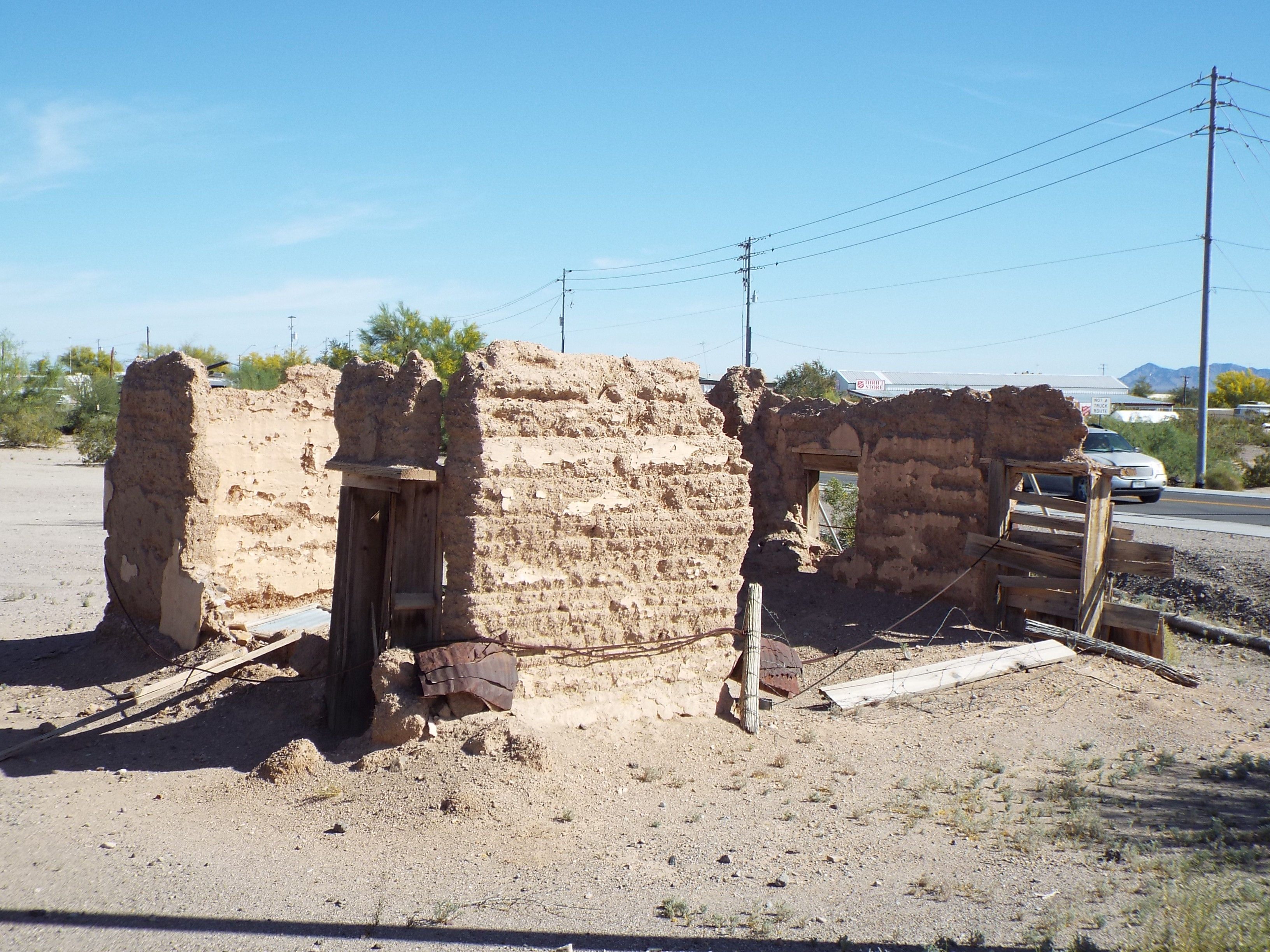 Ruins of Fort Tyson which was built in 1856 and located the corner of Main St. and Moon Mountain Road in Quartzsite, Az.